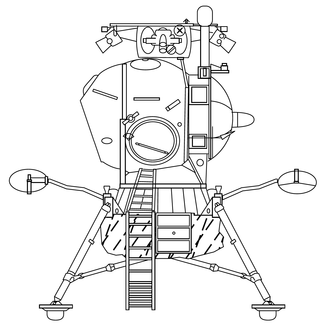 L3 lunar lander. The flat, downward-facing face (left) of the ovoid pressure cabin holds the round viewport (not visible). The Kontakt system passive unit is at cabin top, and two landing radar booms extend at left and right. Nozzles of two solid-fueled hold-down rockets are visible at the tops of the legs, near the bases of the radar booms.